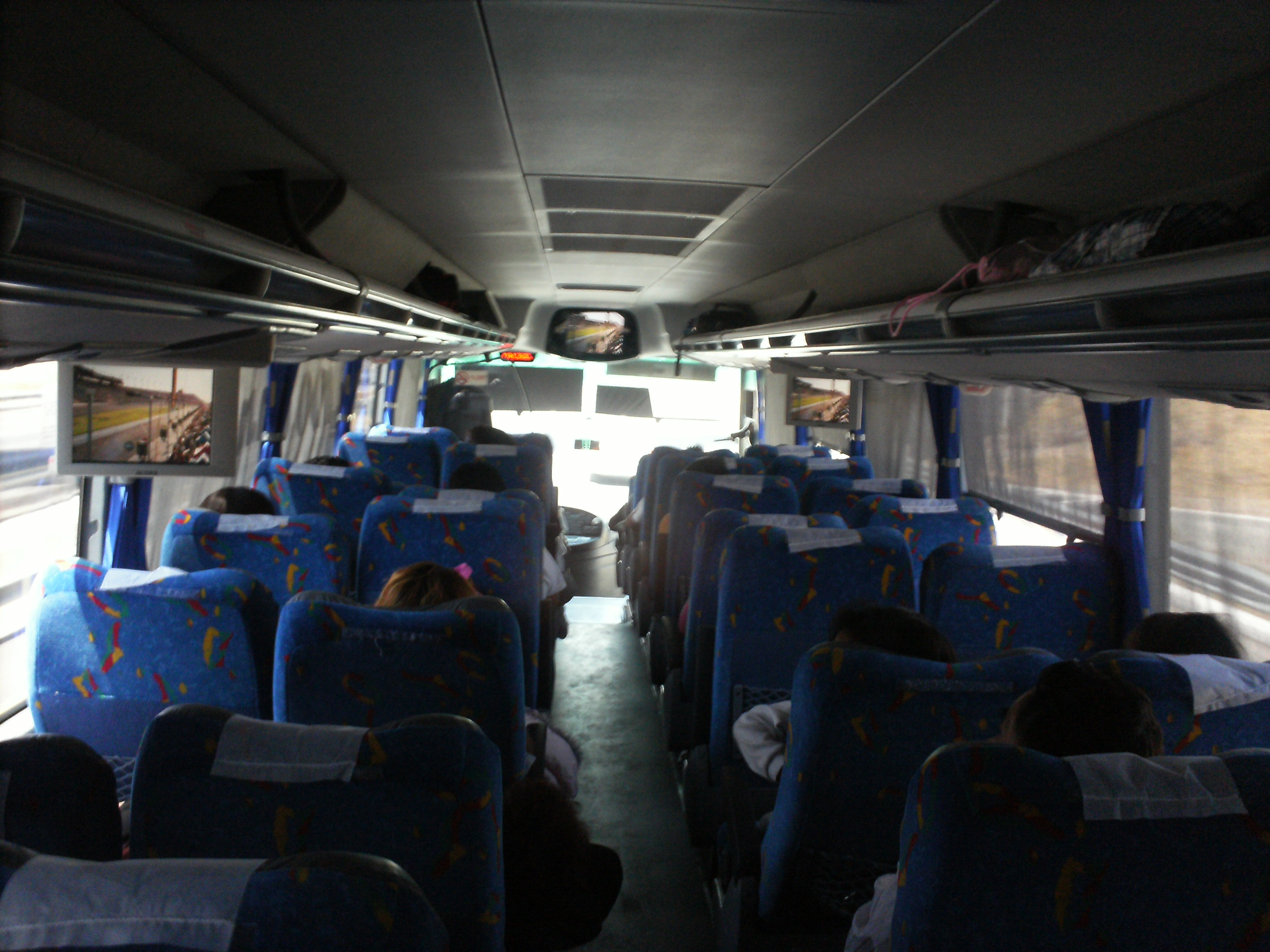 Interior of ADO. near of Puebla, Mexico.